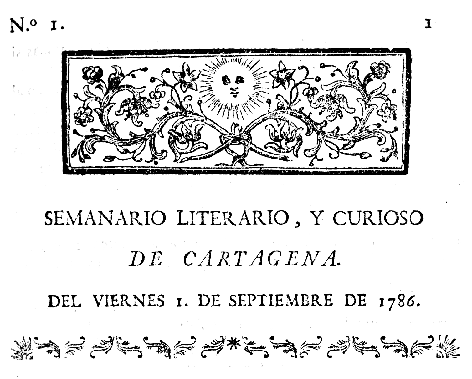 Publication nº 1 first page.